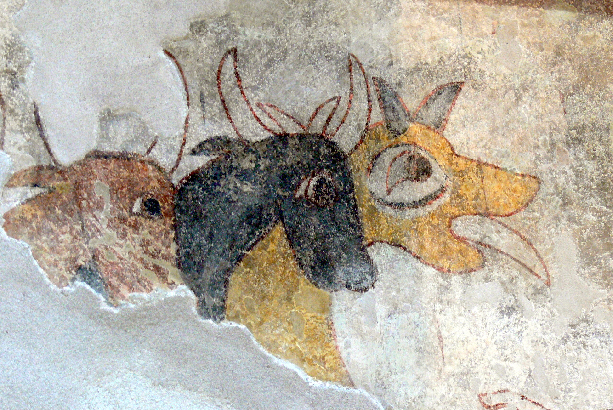 Naturns ( South Tyrol ). Saint Proculus church: Fresco ( 8th century ) at the western wall showing cattle.